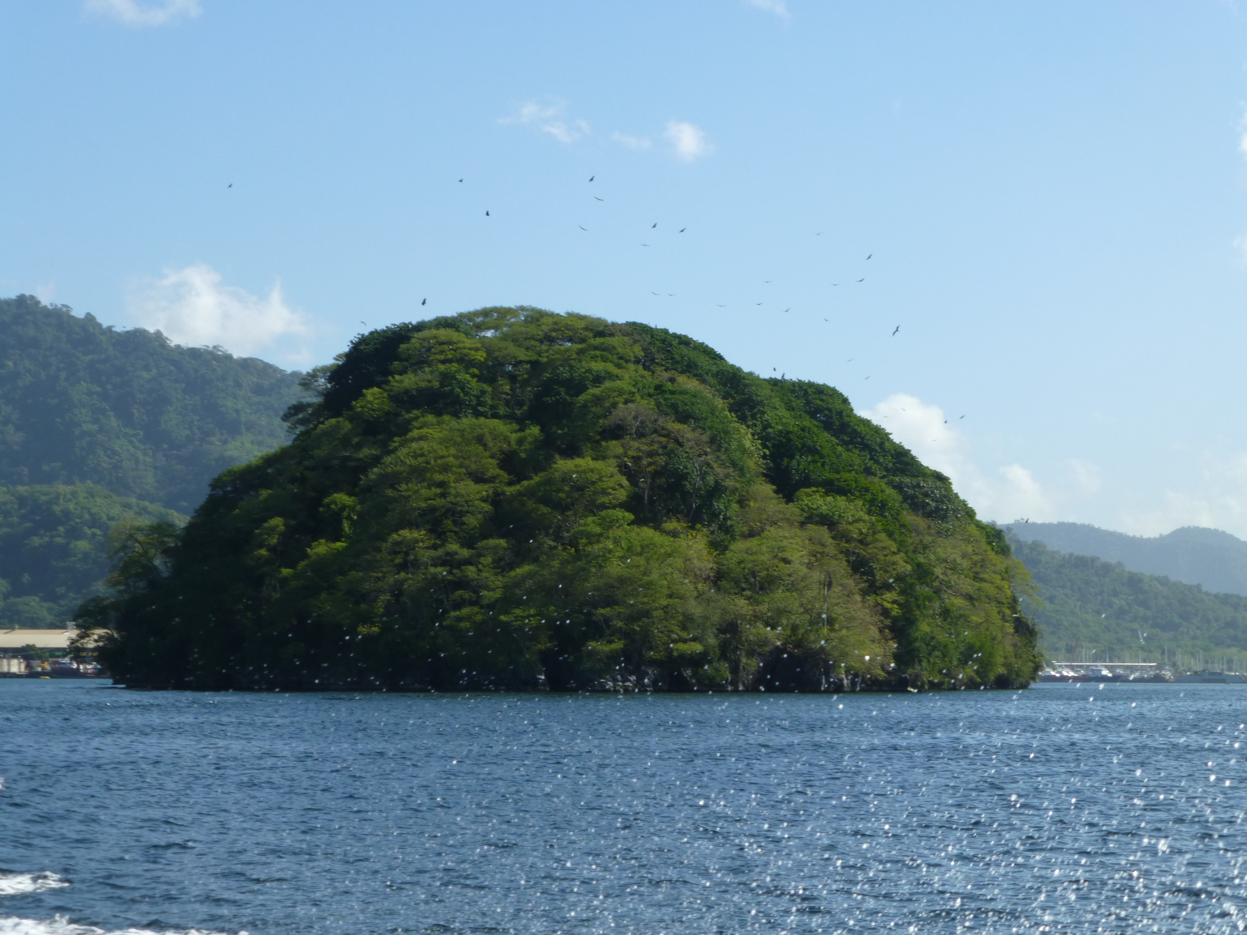 Centipede Island, also known as Little Gasparee or Gasparillo. Chaguaramas, Diego Martin, Trinidad. The picture quality sucks, but so far it's the only picture of the island depicting it's vegetation, so I uploaded it.